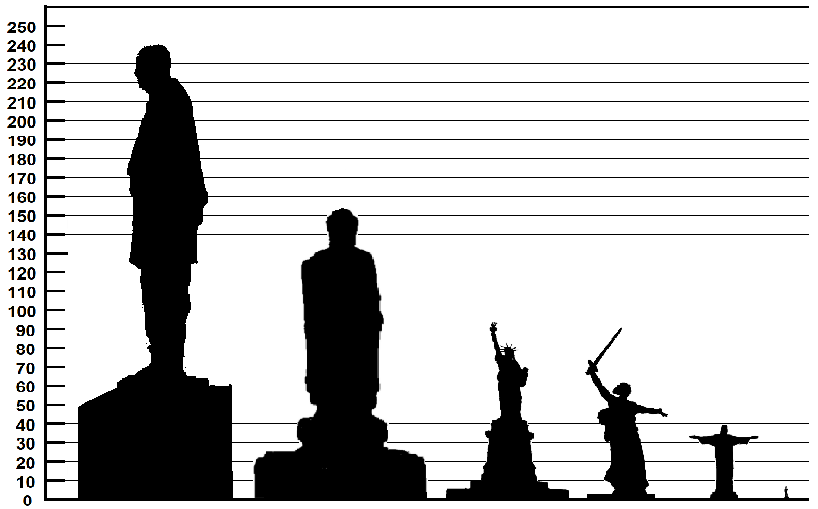 Height comparison of notable statues: Statue of Unity 240 m Spring Temple Buddha 153 m Statue of Liberty 93 m The Motherland Calls 91 m Christ the Redeemer 39.6 m Statue of David 5.17 m